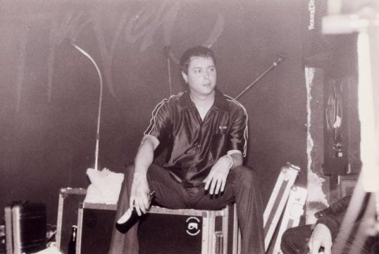 Backstage photo of Spahn Ranch Keyboard Player Matt Green 1997